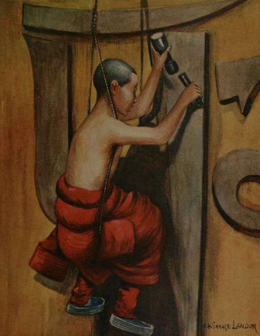 Arnold Henry Savage Landor, Making sculpture in Tibet, 1905.